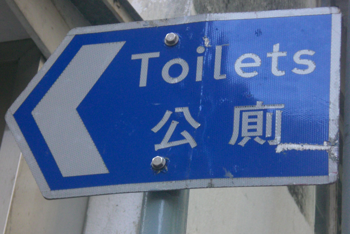 公廁, Public toilets, 是公共廁所的簡稱. Author= SoTLMoHa